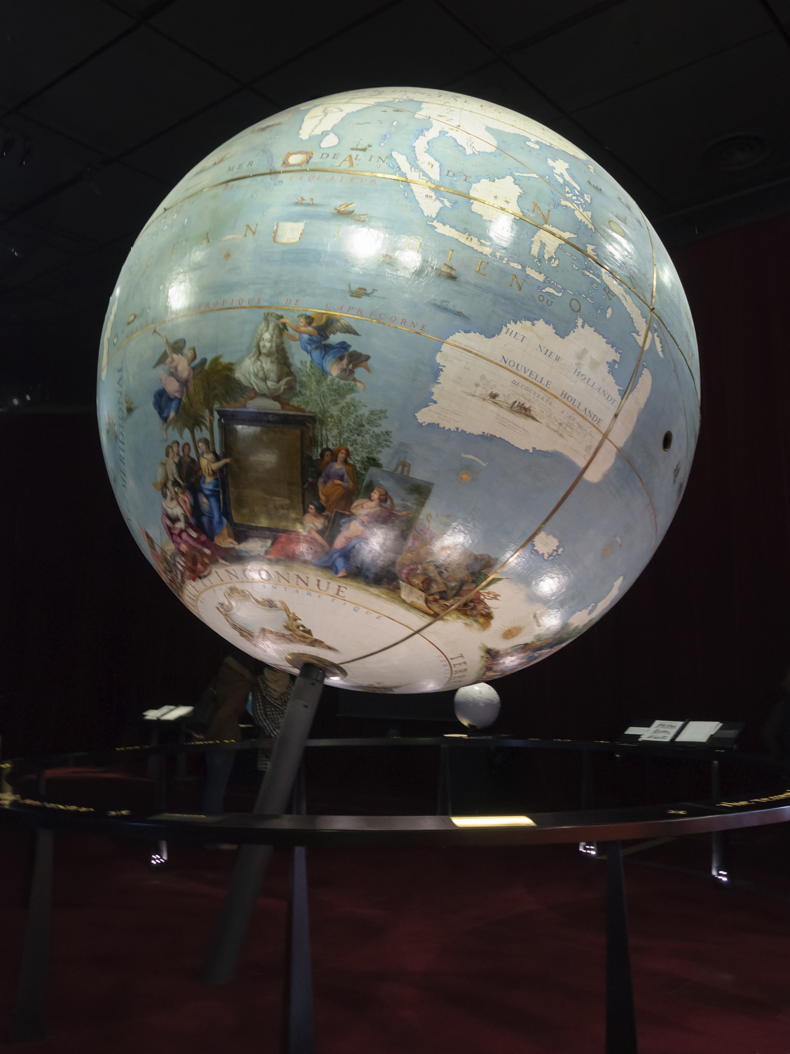 Coronelli Terrestrial Globe (1681-1683), Bibliothèque nationale de France, François-Mitterrand site, Paris, France.